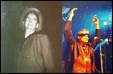 Laurence Malice (left) and Iain Williams (right) of Big Bang (British Band) performing on stage during their 1989 Arabic Circus Tour.